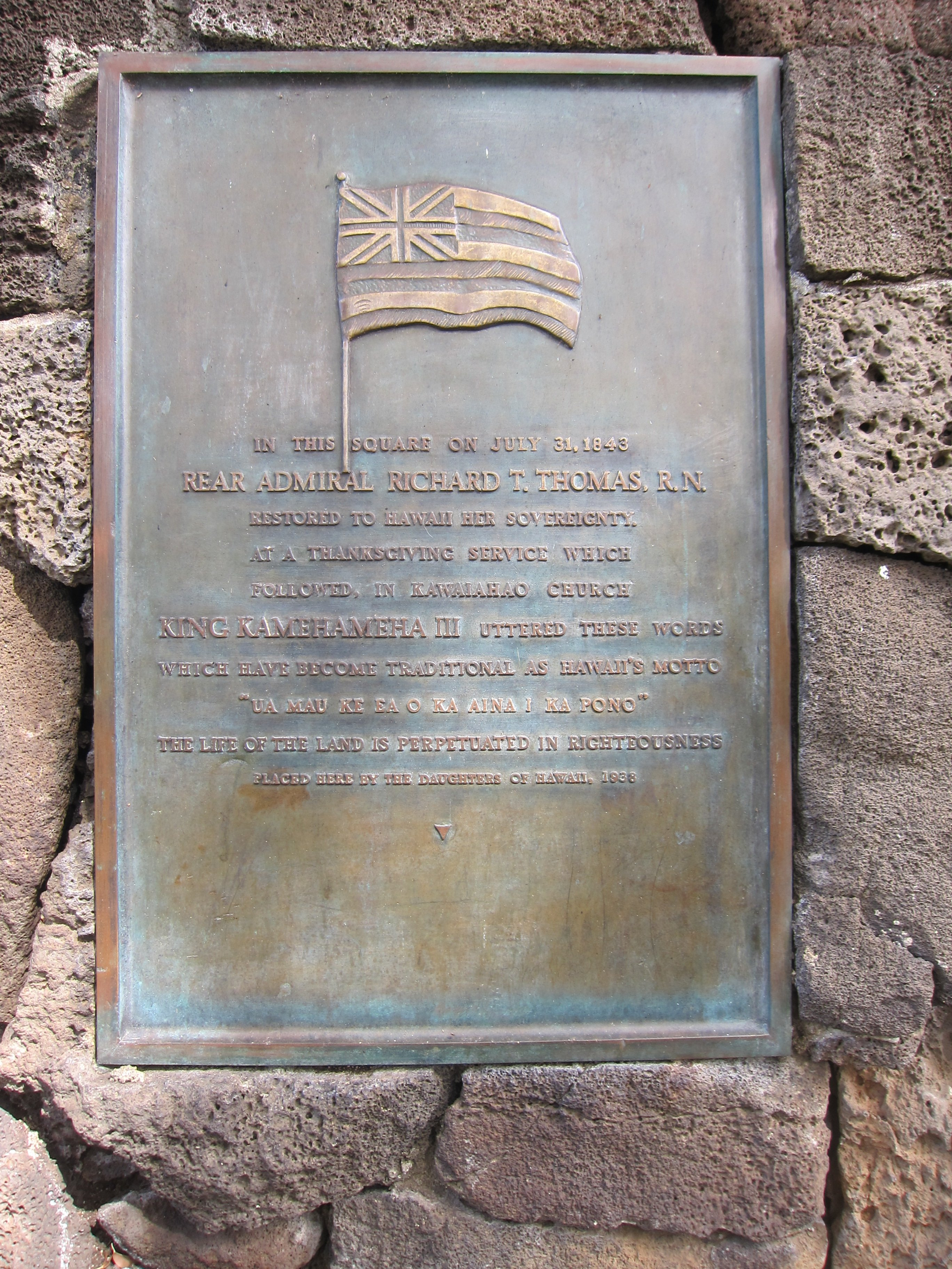 "Rear Admiral Richard T. Thomas, R.N." A bronze plaque set in a stone wall in honor of Rear Admiral Richard Darton Thomas of the British Royal Navy who restored the sovereignty of Kamehameha III in 1843. Located in Thomas Square along Beretania Street.